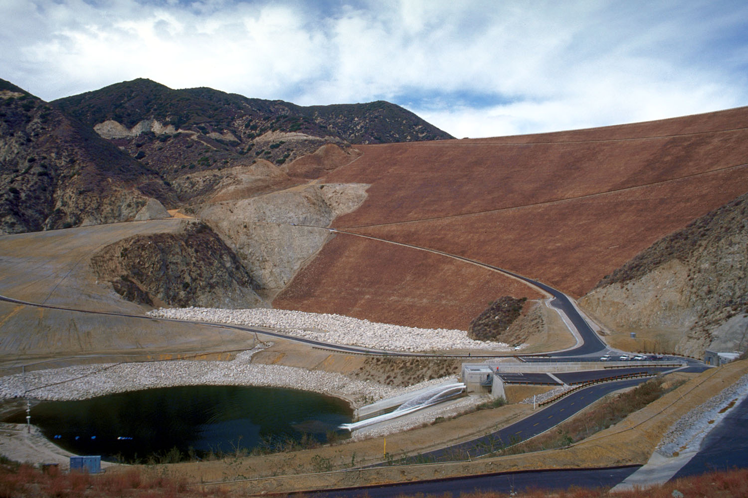 Seven Oaks Dam on the Santa Ana River in San Bernardino County, California, USA. The dam is located in the San Bernardino National Forest about 6 miles (10 km) northeast of Redlands, California. The dam was completed in 1999 by the U.S. Army Corps of Engineers for flood control on the Santa Ana River. Most of the year the lake is dry or has very little water, and accumulates water only during periods of heavy rain. Coordinates: 34°7′5.26″N 117°5′50.46″W / 34.1181278°N 117.09735°W